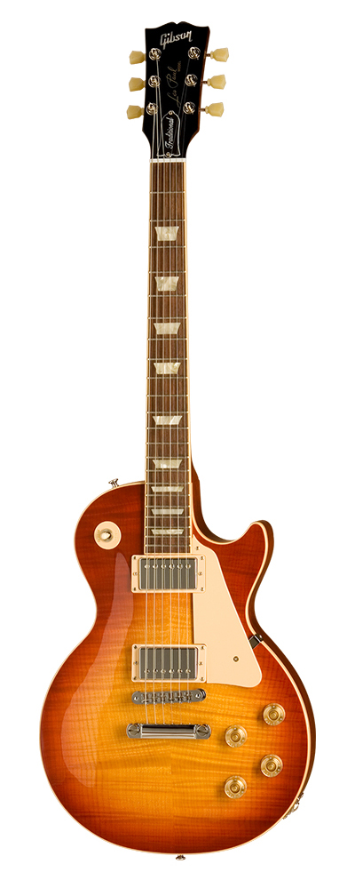 Gibson Les Paul Traditional model